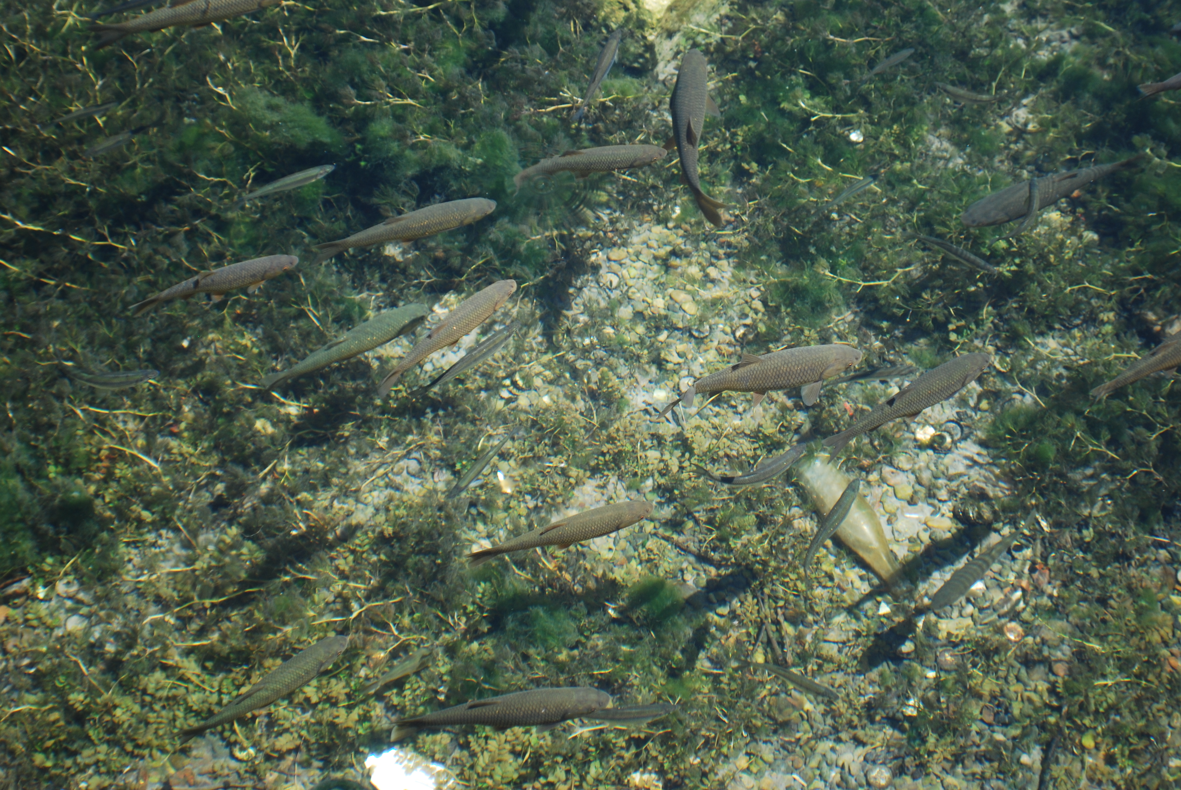 Springs St. Naum, part of the National Park Galičica. Lake Ohrid, Macedonia